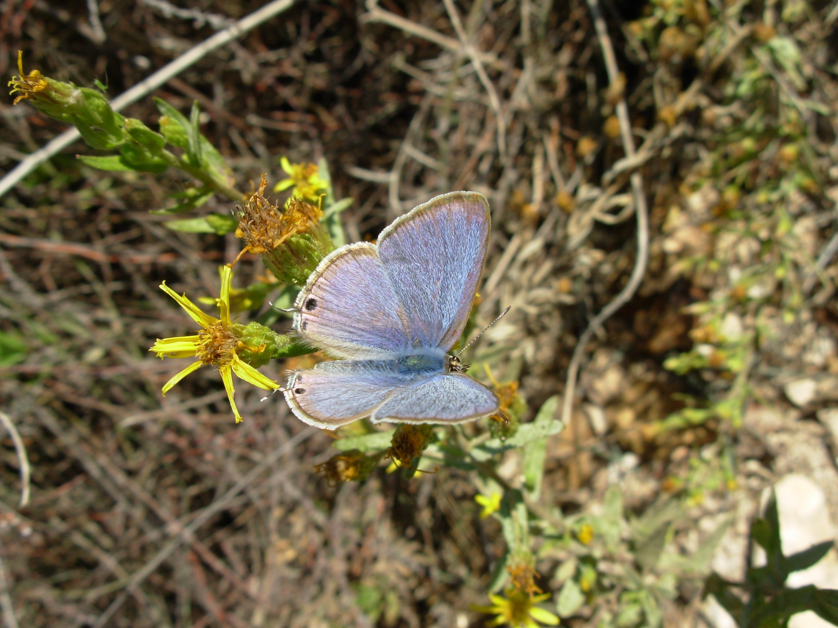 כחליל האפון (זכר), בגבעה הצרפתית ירושלים (Lampides boeticus)